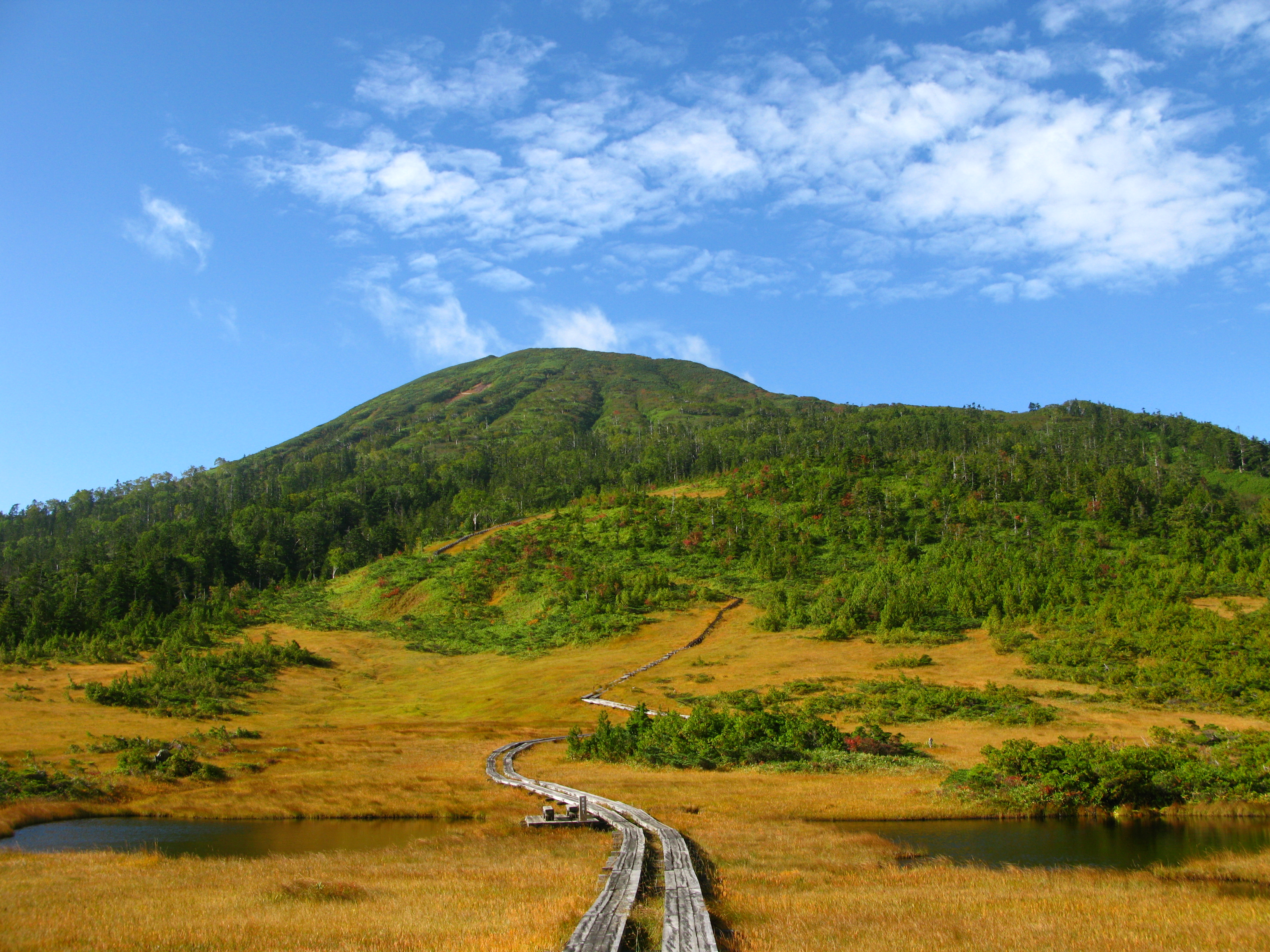 Mount Hiuchi, Fukushima Prefecture, Japan